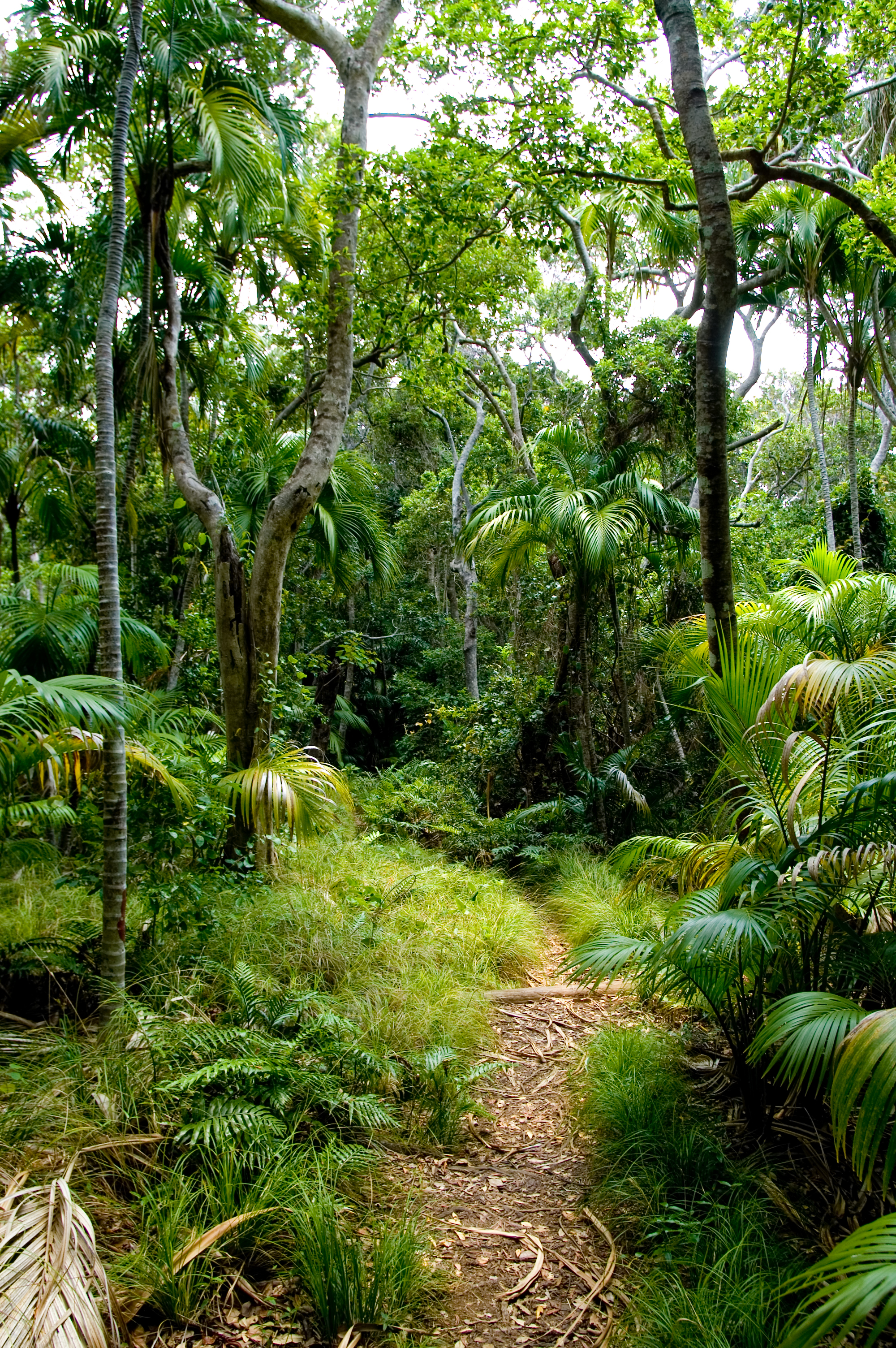 Rainforest on Lord Howe Island.